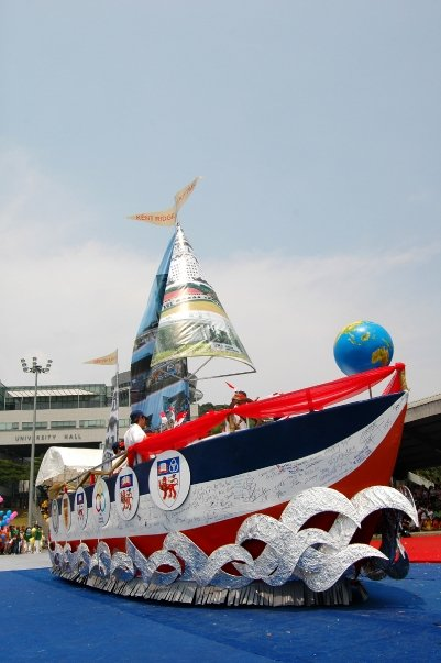 A float created for the NUSSU Rag and Flag float day.